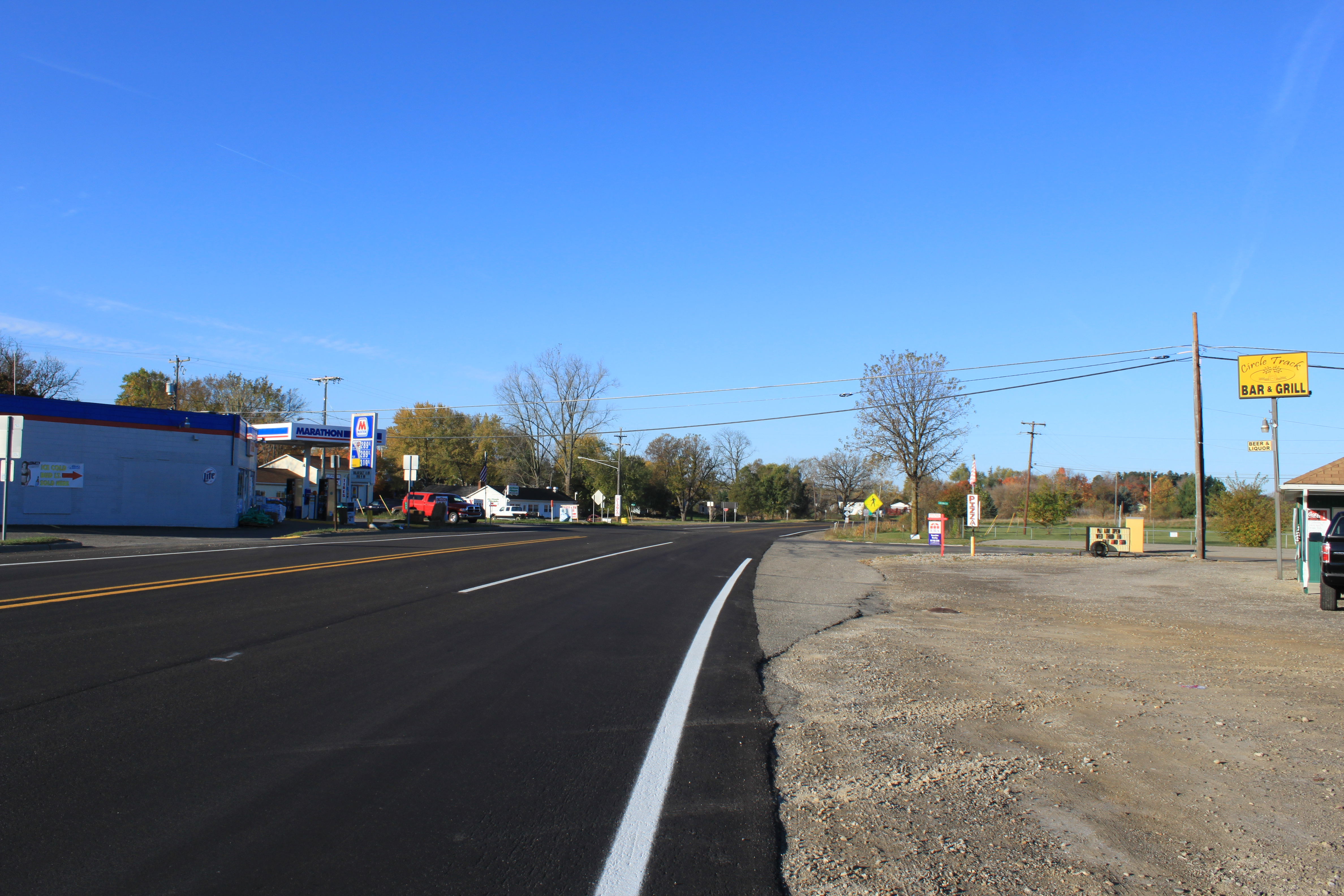 M-106 Michigan Highway, intersection of M-106 (Plum Orchard Road) and Musbach Road which is the boundary between Henrietta and Waterloo townships.